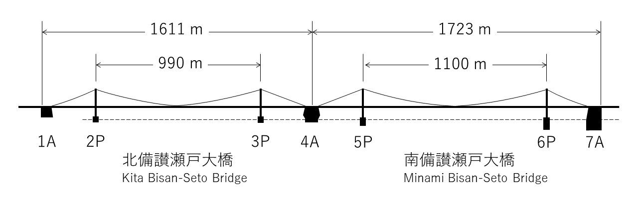 Schematic view of north and south Bisan-Seto bridges.